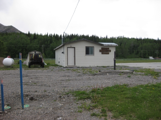 The Cadomin Recreation Centre. There is a constructed concrete field to the right of this building which is turned into an ice rink in the winter. July 2011